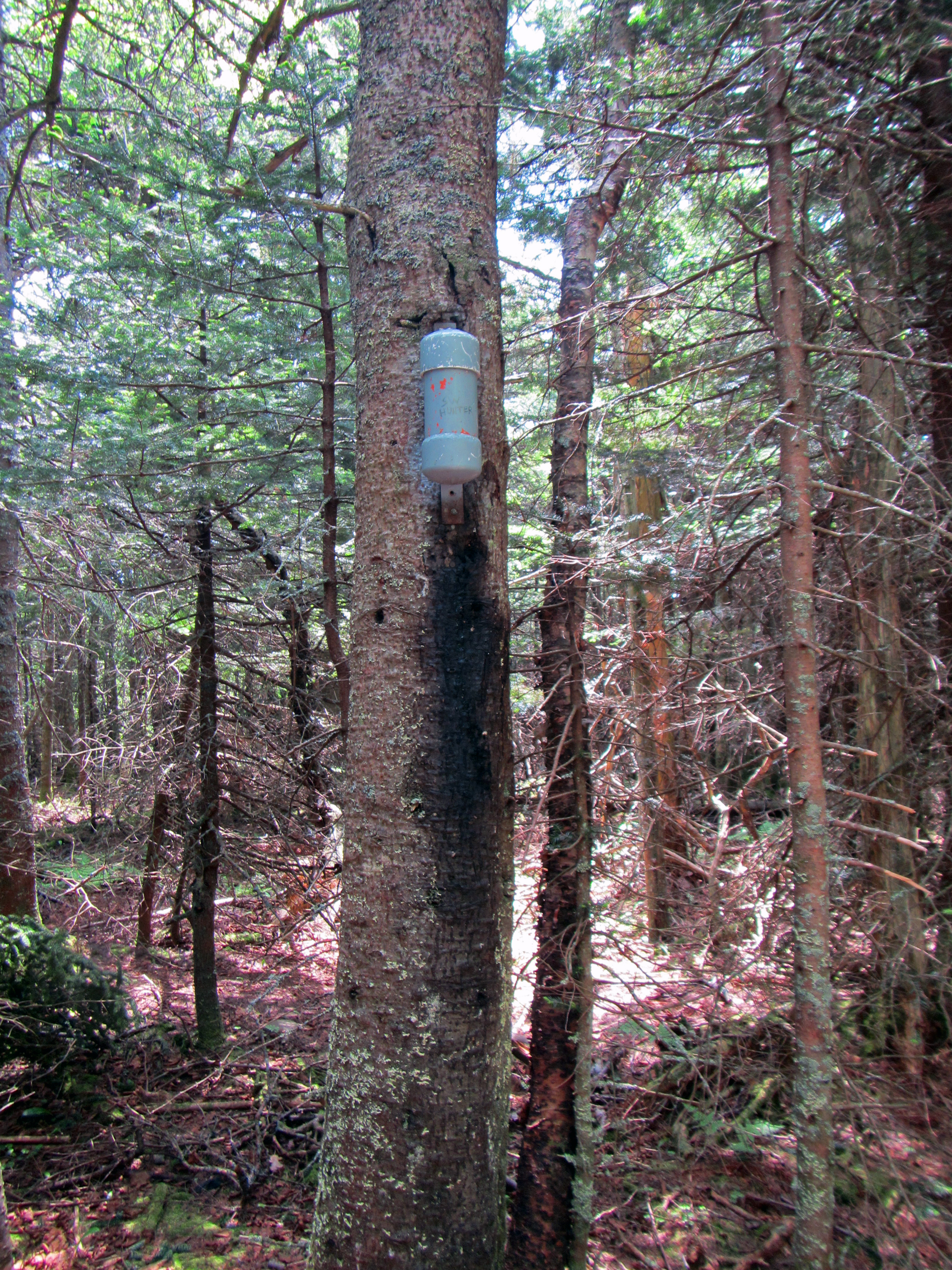 Catskill 3500 Club summit register on trailless Southwest Hunter Mountain